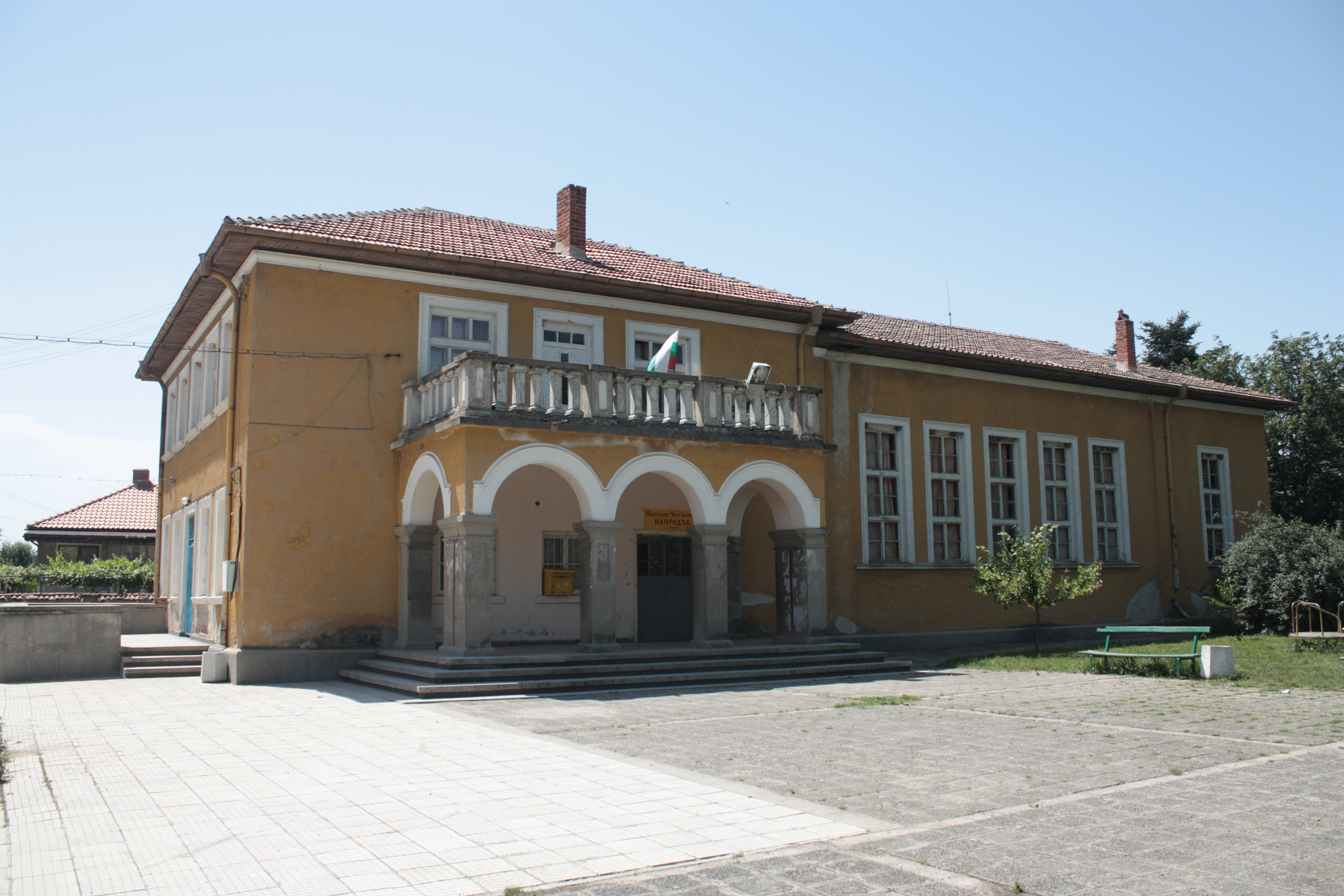 Culture club in Lyben village, Bulgaria